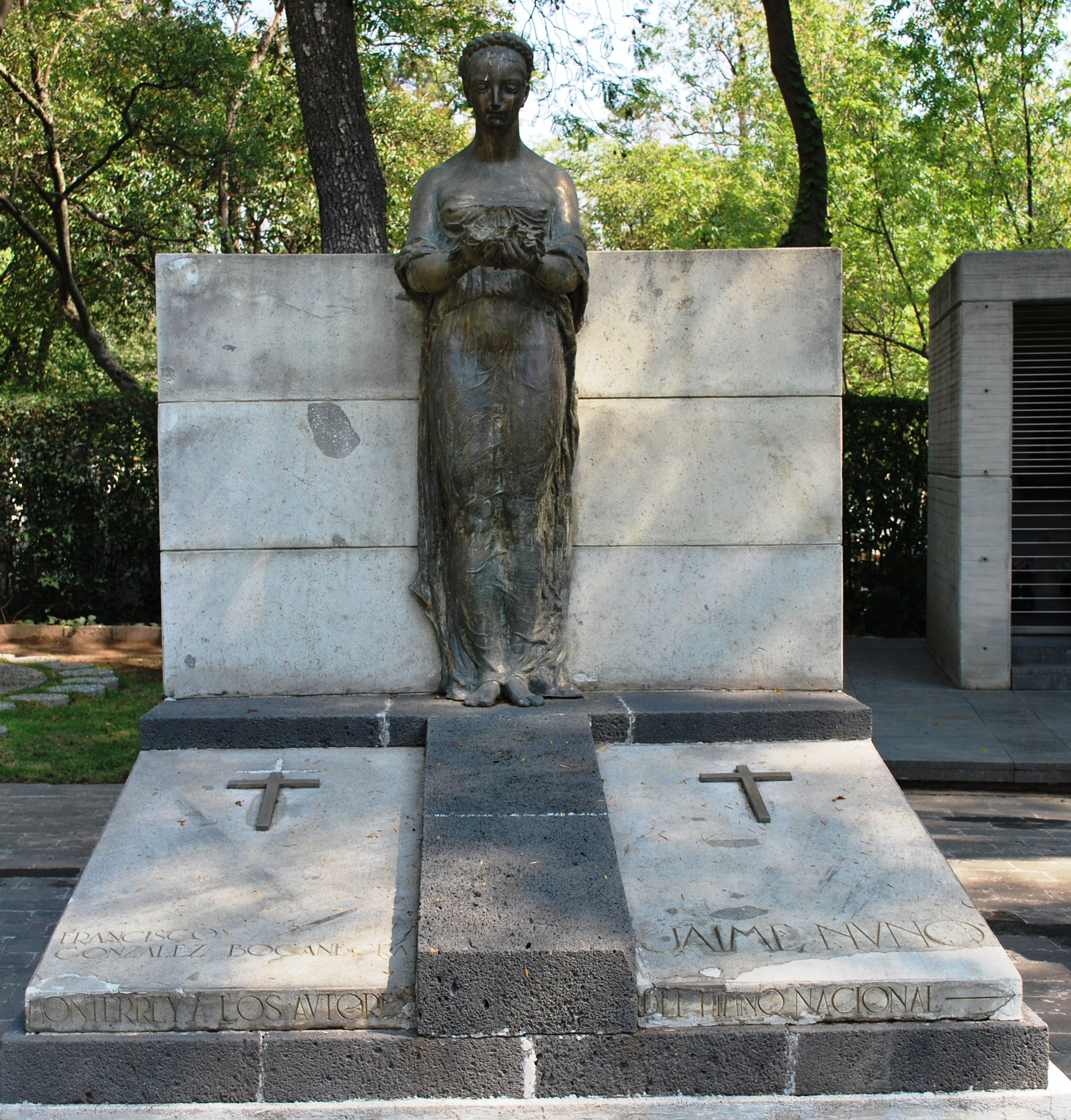 Tomb of Francisco Gonzalez Bocanegra and Jaime Nuno Roca at the Panteon Civil de Dolores in Mexico City